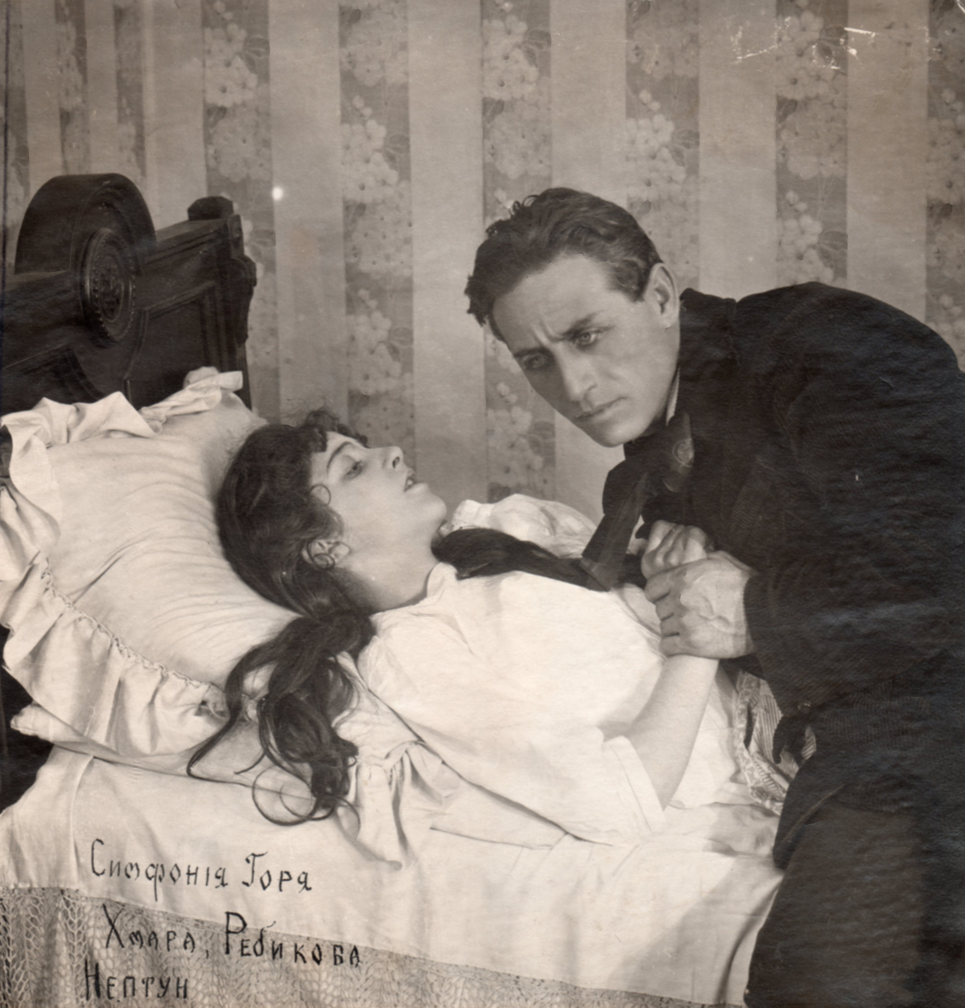 Alexandra Rebikova and Gregory Chmara in the film "Symphony of sorrow", 1918